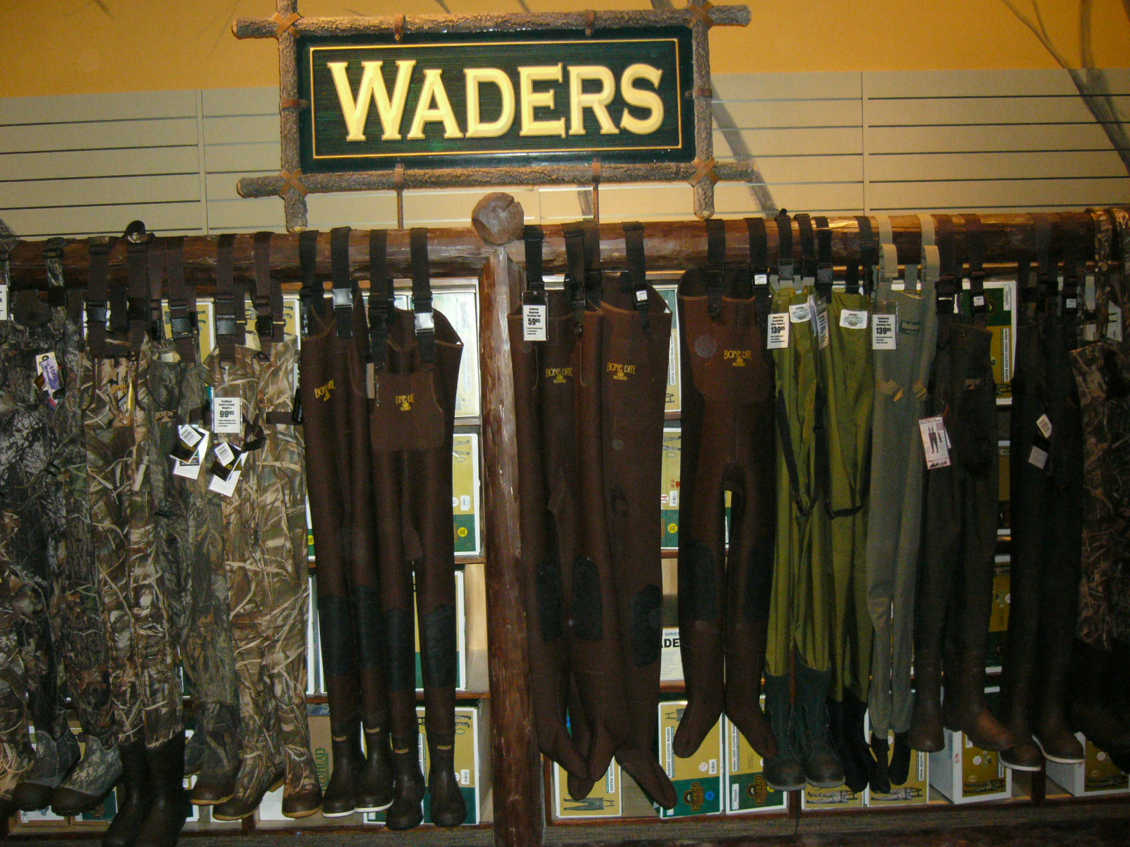 Several pairs of waders